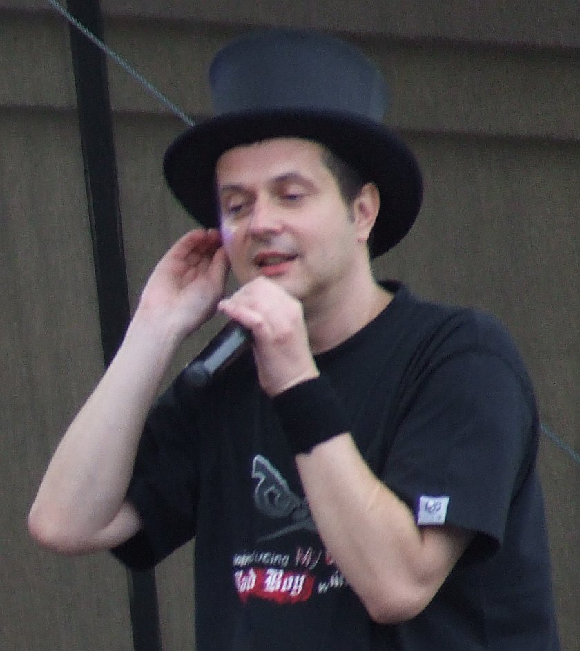 Krzysztof Grabowski from Pidżama Porno at Union Of Rock Festival 2007.